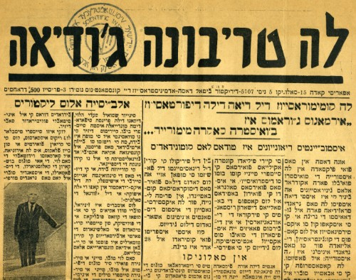 La Tribunа Ткась